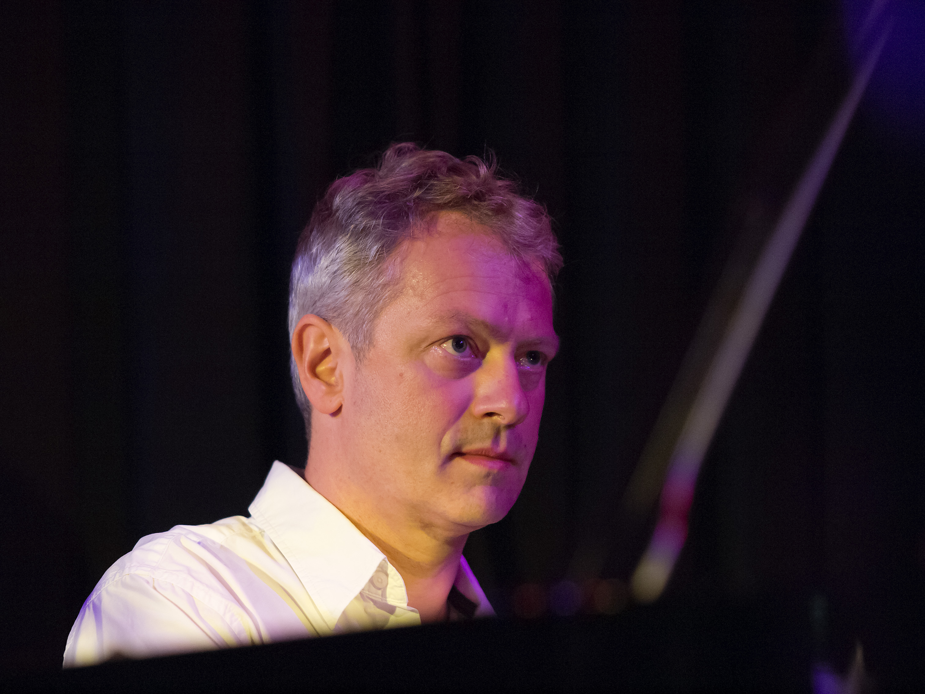 Stevko Busch, Jazz pianist; Picture taken in Jazz Club Unterfahrt, Munich/Bavaria